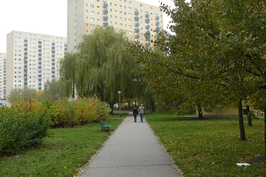 Zwyciestwa District in Poznan.